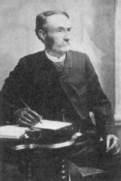 It is pre-1923 and not subject to copyright. It may also be a U.S. government picture of when Marshall Twitchell was consul in Canada.